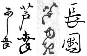 Examples of the signature of Ashiyuki (芦幸), the one on the right reading "Nagakuni" (長国)